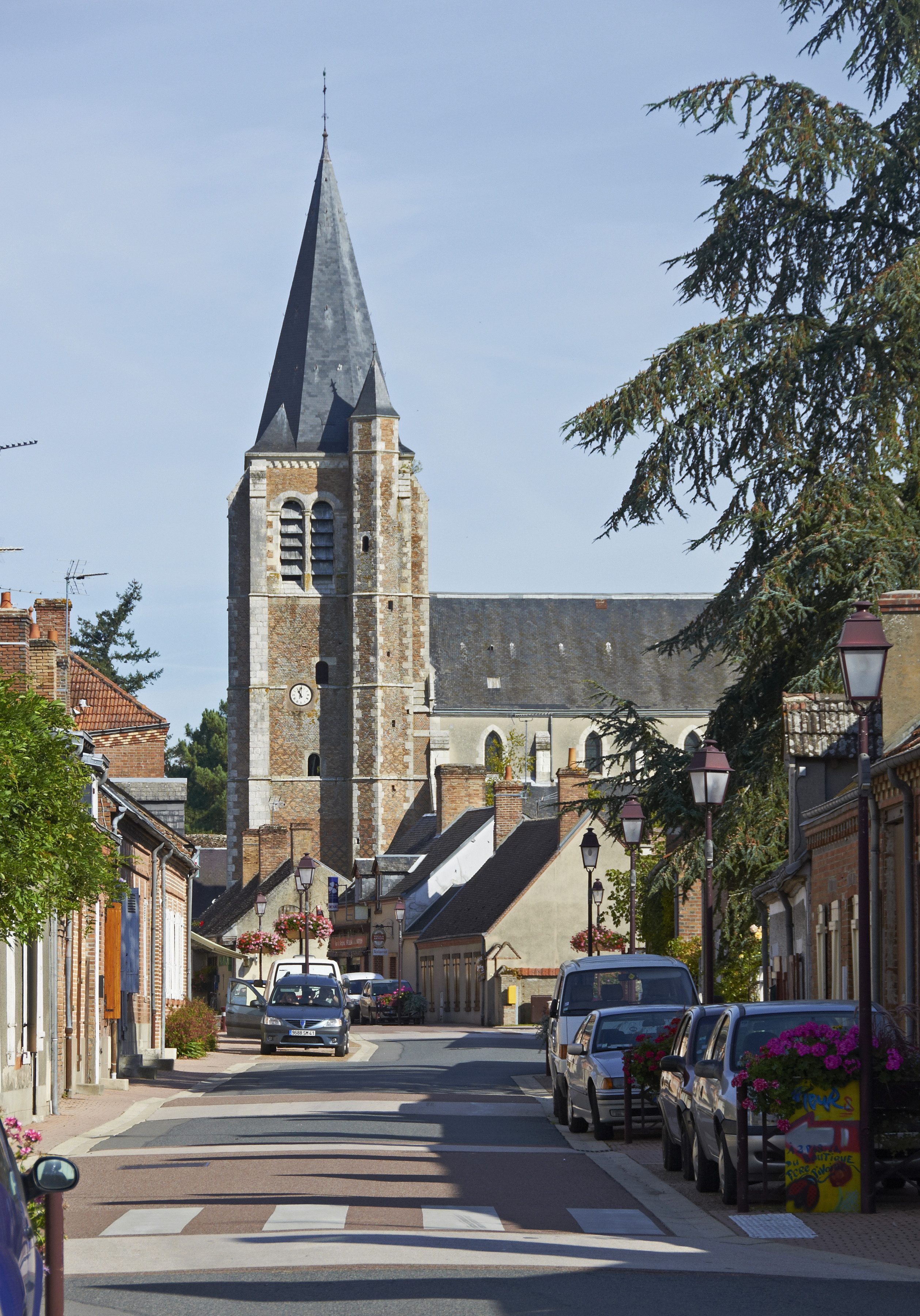 Church in Vouzon, France